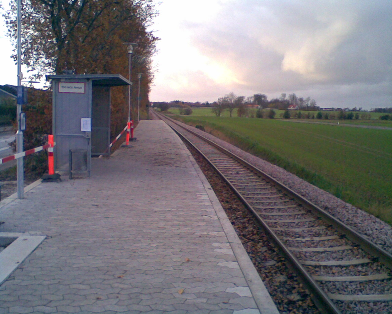 Nørrevænget Station, Tranbjerg, Denmark